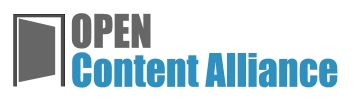 open content alliance logo